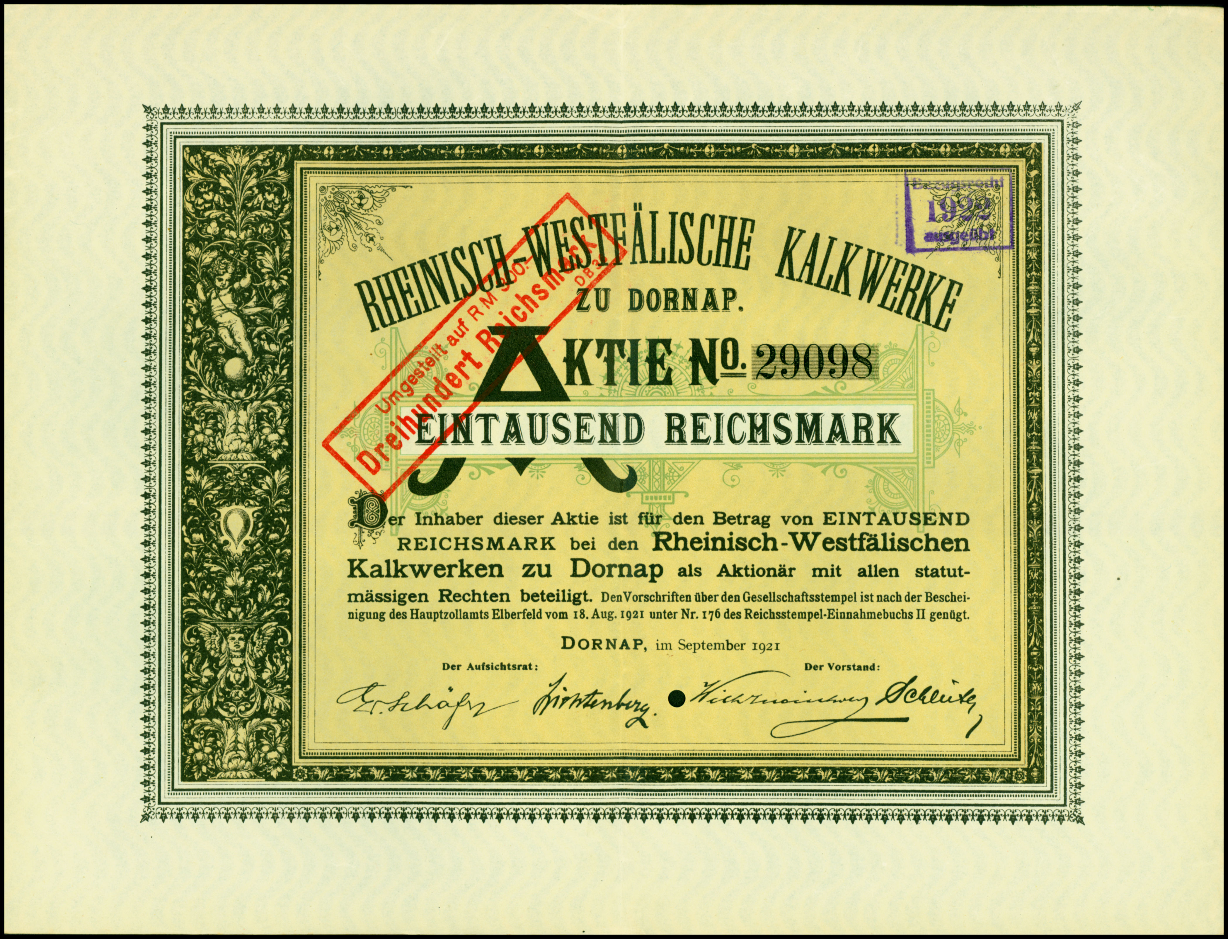 Share of the Rheinisch-Westfälische Kalkwerke zu Dornap, issued September 1921